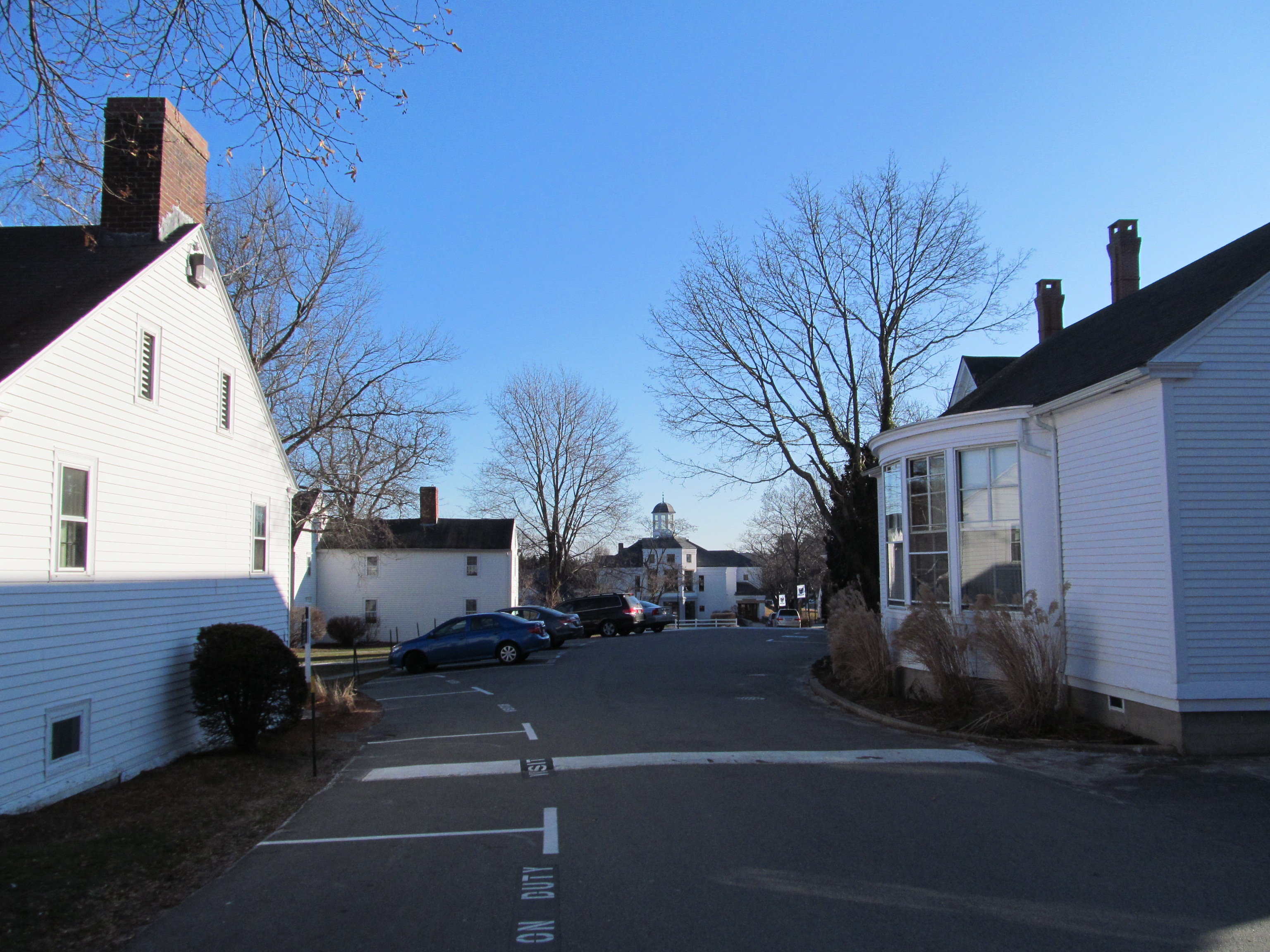 Brooks School, North Andover Massachusetts